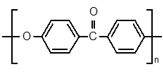 Polyetherketone01